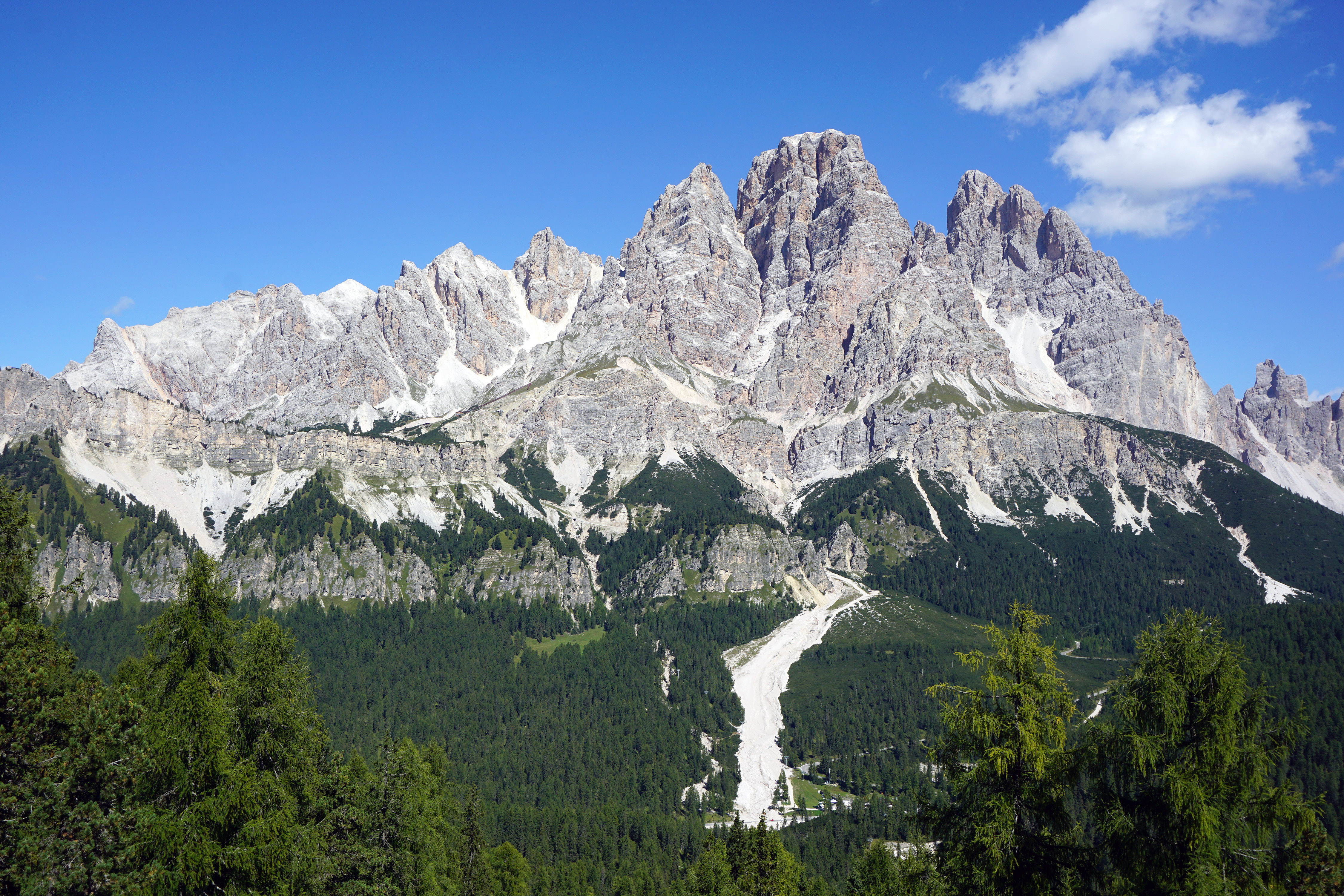 Cristallo mountain seen from Faloria, Cortina d'Ampezzo, Italy.